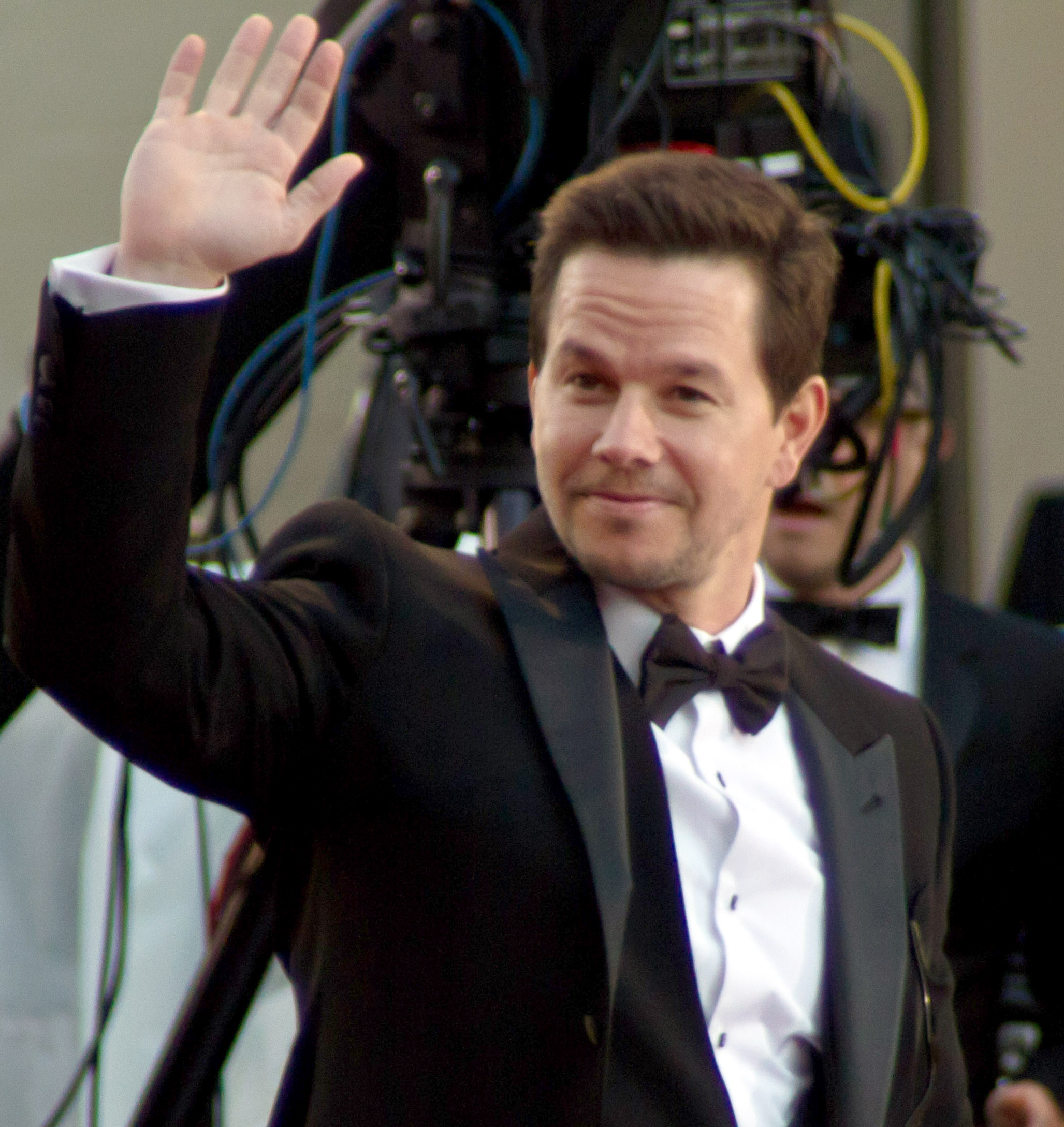 Actor Mark Wahlberg at the 83rd Academy Awards.